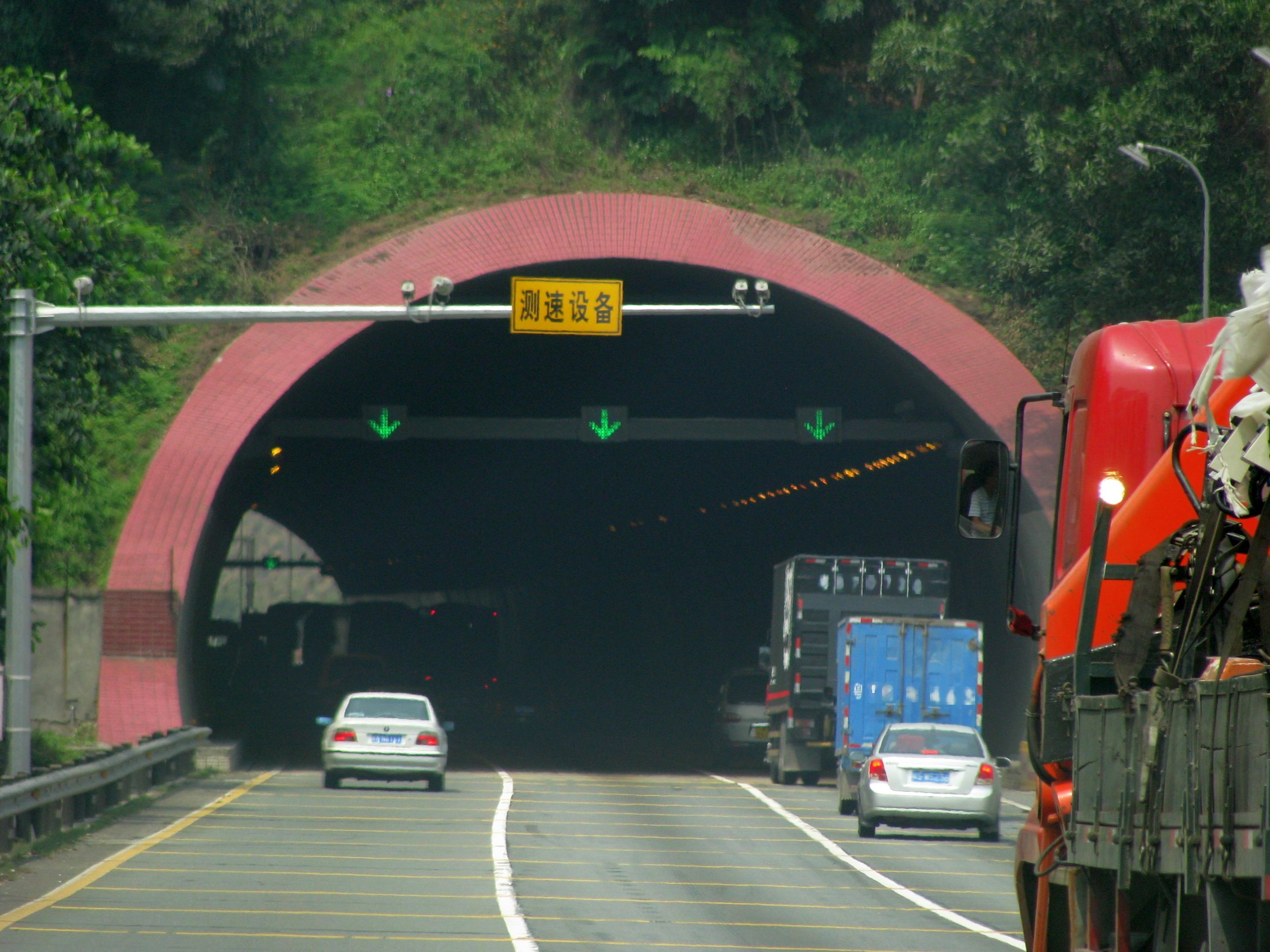 The Baihuashan Tunnel of G9411 Dongguan–Foshan Expressway in China.